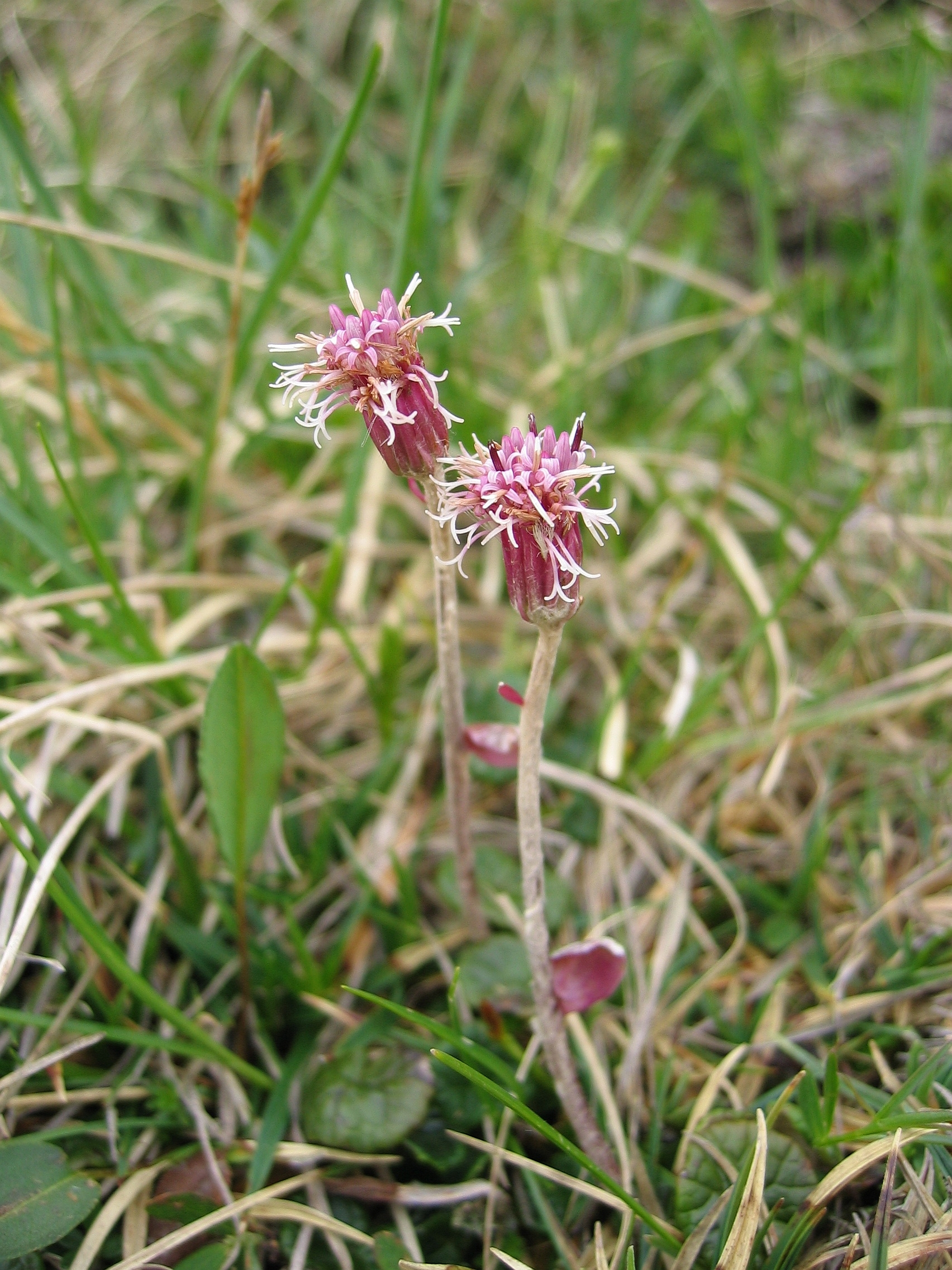 Homogyne discolor, Warscheneck, South East Grat, ~ 2000 m, Upper Austria, Austria